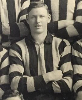 Photograph of Jack O'Connor in 1918